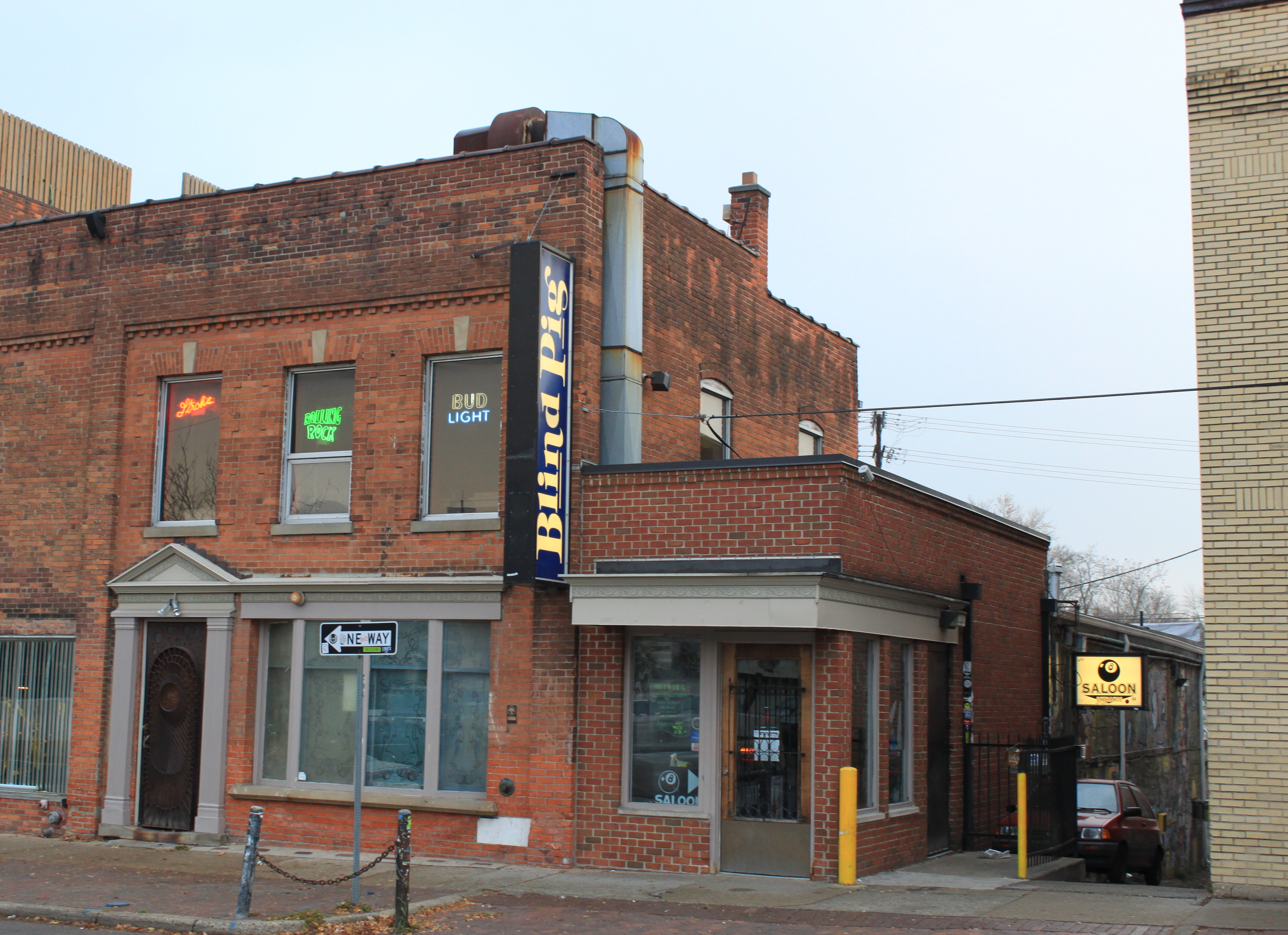 Blind Pig music venue, 208 South First Street, Ann Arbor, Michigan